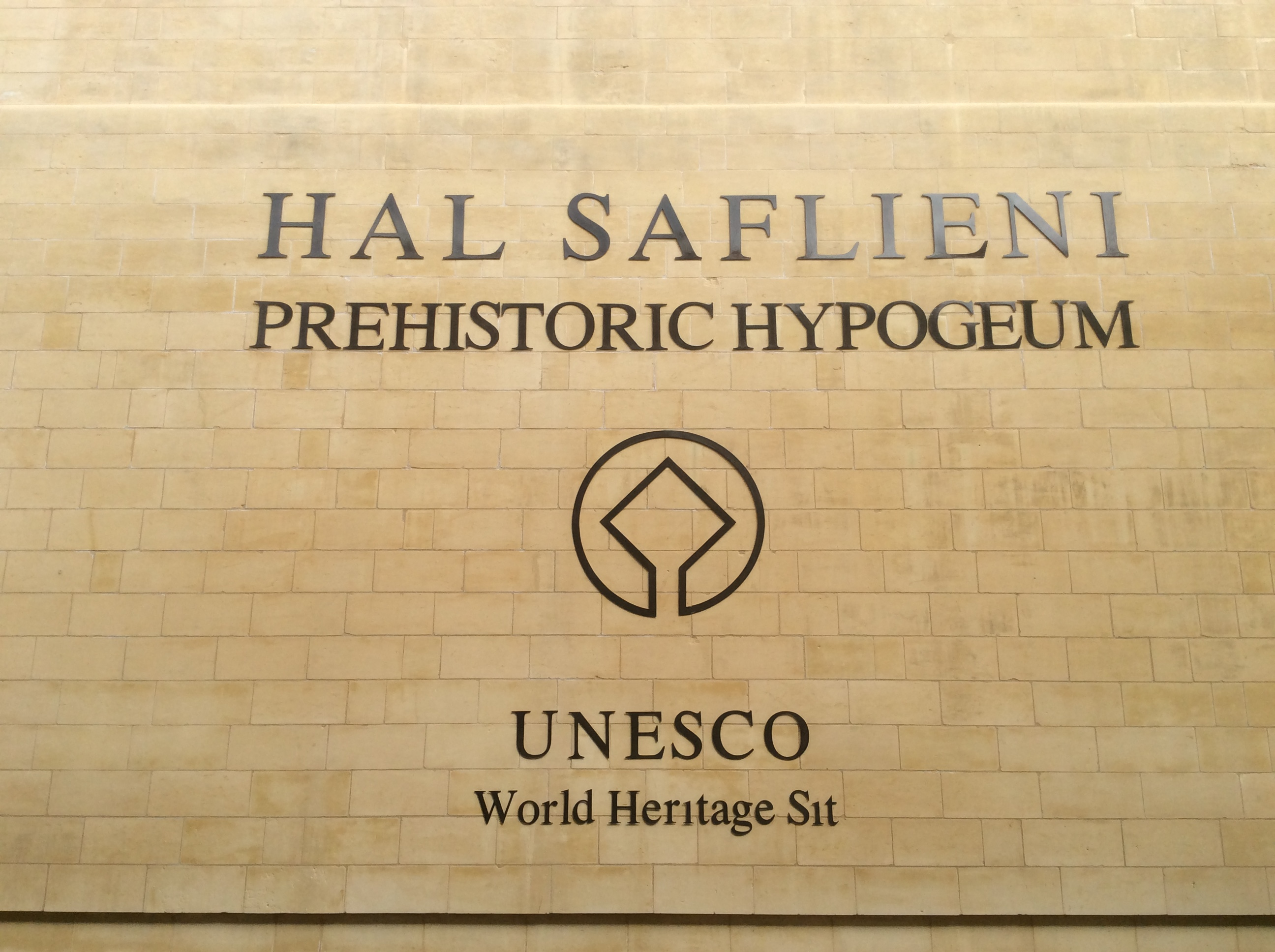 Ħal-Saflieni Museum façade after restoration